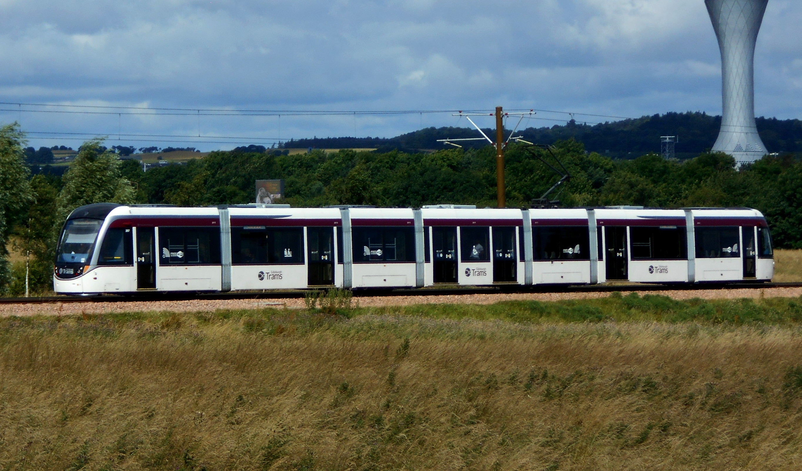 An Edinburgh tram approachng Ingliston from the airport.